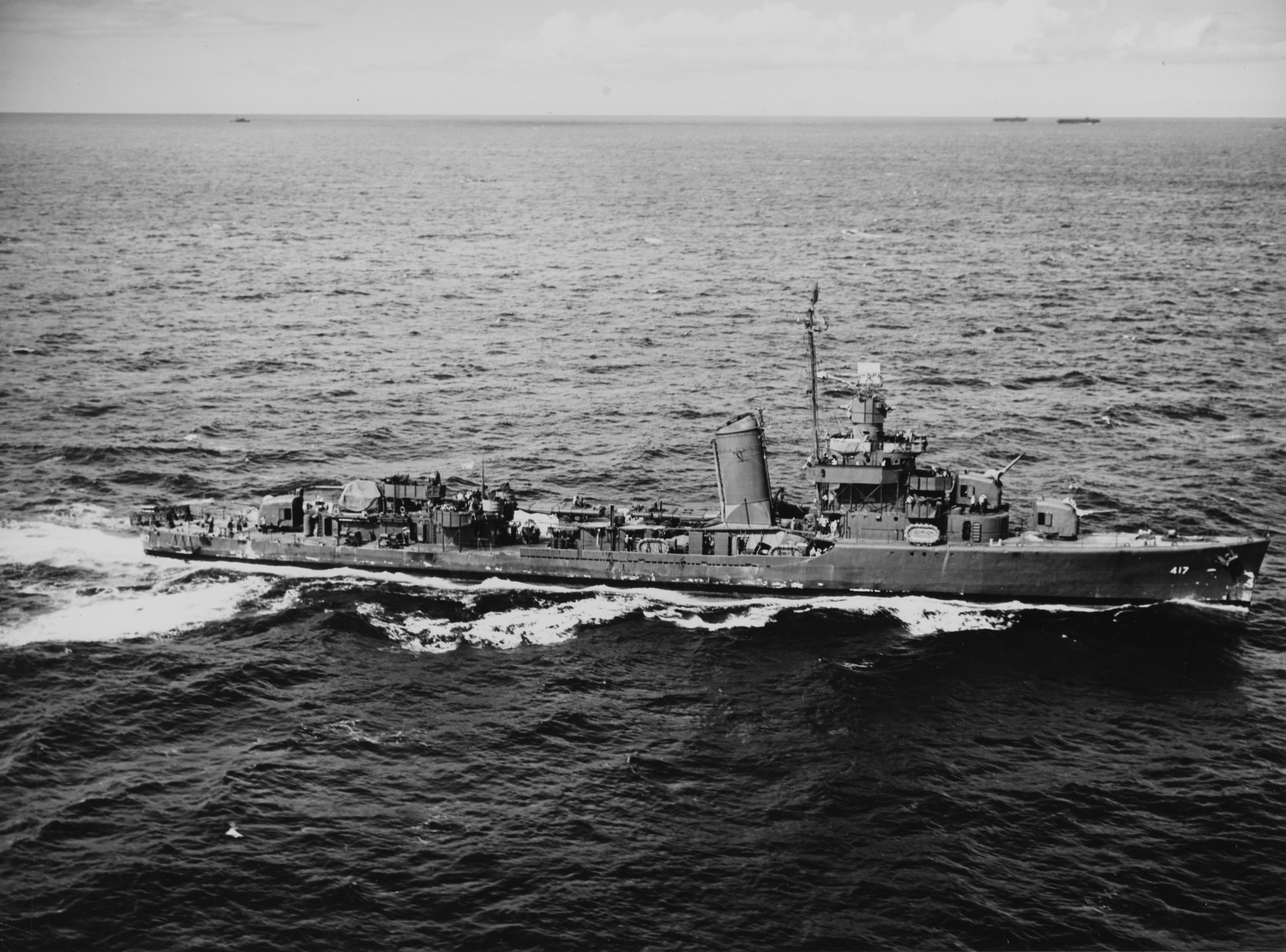 The U.S. Navy destroyer USS Morris (DD-417) underway at sea on 6 December 1943.